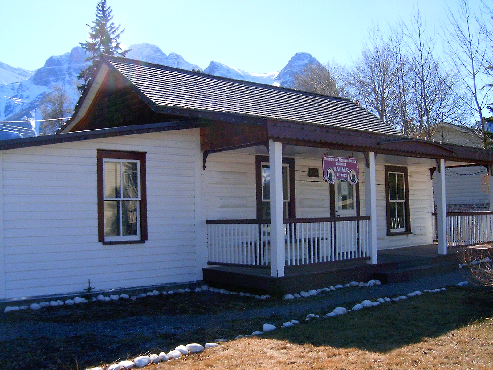 By the 1890s, a North West Mounted Police barrack had been instated on Main Street Canmore, but it was vacated in 1927. The building was restored in 1989 and is currently home to a small community-run museum and botanical garden.